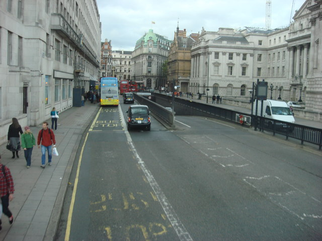 A 301 Lancaster Place The entrance to the Strand Underpass can be seen in the centre of this image.